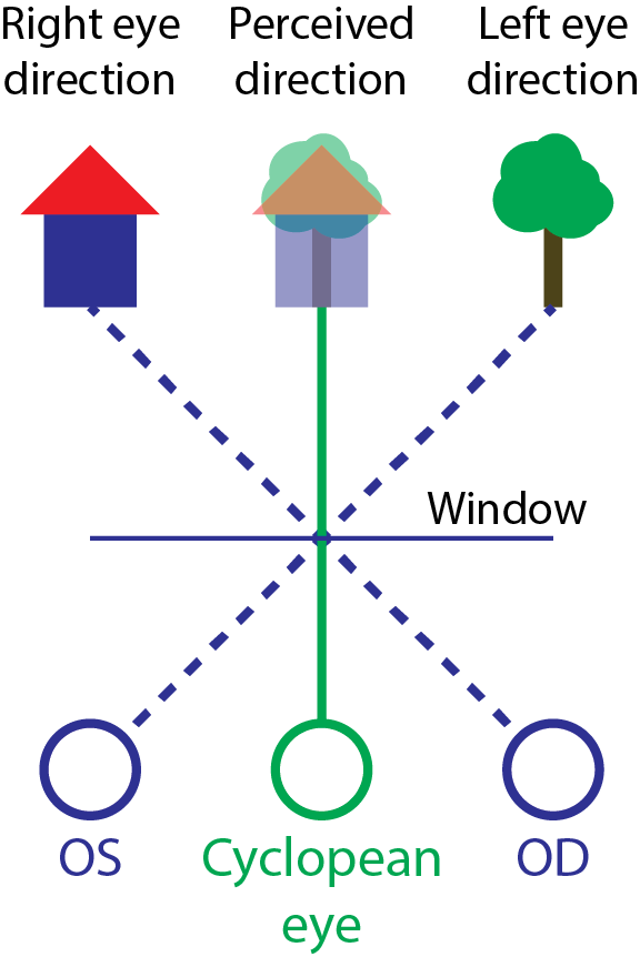 Hering's demonstration of his law of visual direction. The perceived location of 2 objects seen through a window will be neither the location of the object in the left or the right eye but will be as seen from a cyclopean eye midpoint betwwen the two eyes.